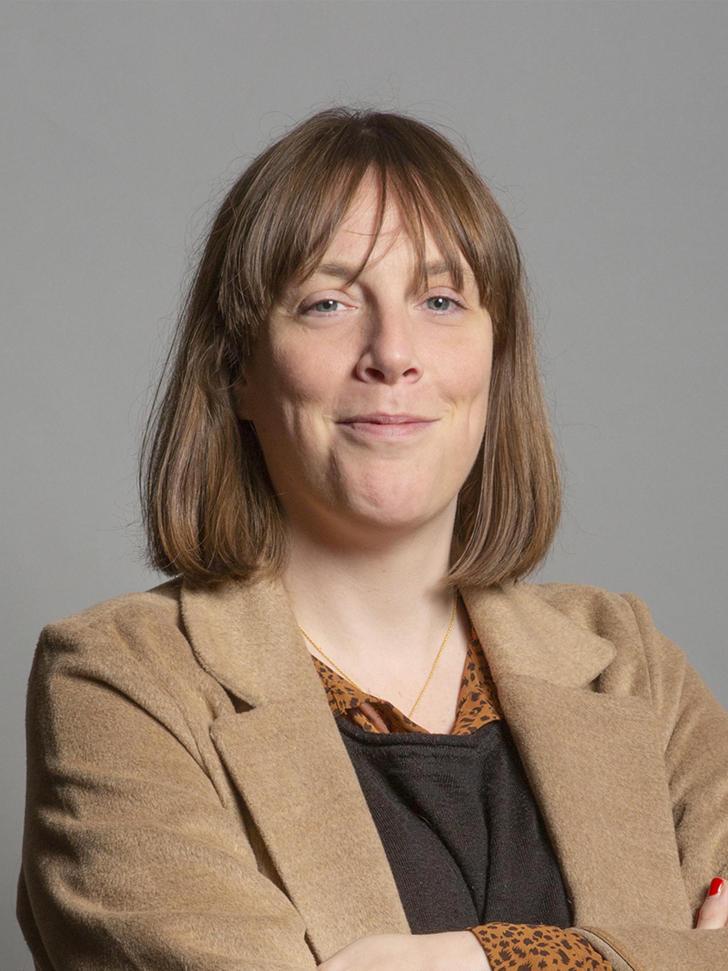 Official portrait of Jess Phillips MP 3×4 portrait of Jess Phillips